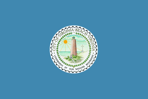 The council accepted the design for a new city flag of Virginia Beach, Virginia, on January 11, 1965. The design was chosen by a three-member flag committee. The flag design was modeled after the flag of the Commonwealth of Virginia, with a solid blue background with the official city seal placed in the center.